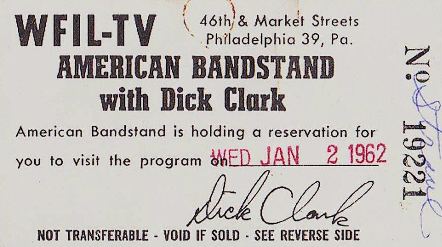 Image of a 1962 ticket to attend the television program American Bandstand when the program was still being done at WFIL in Philadelphia.